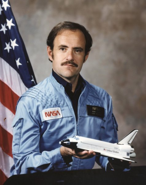 portrait astronaut John Lounge